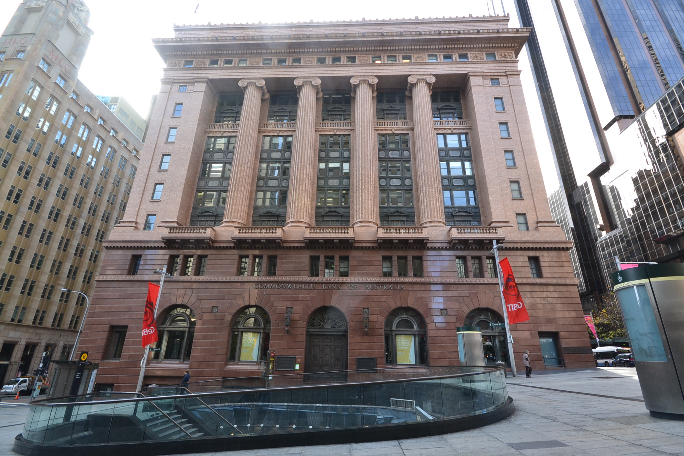 Commonwealth Bank building located at Martin Place, Sydney.